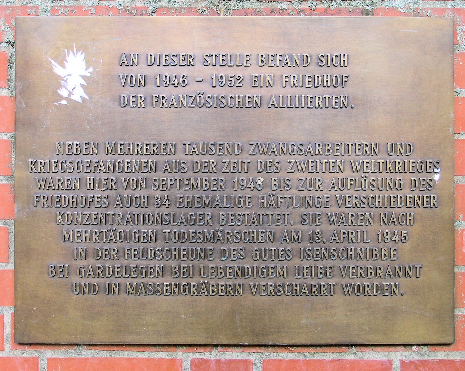 Memorial plaque, Friedhof der französischen Alliierten, Schönfließer Straße 13-19, Berlin-Frohnau, Germany